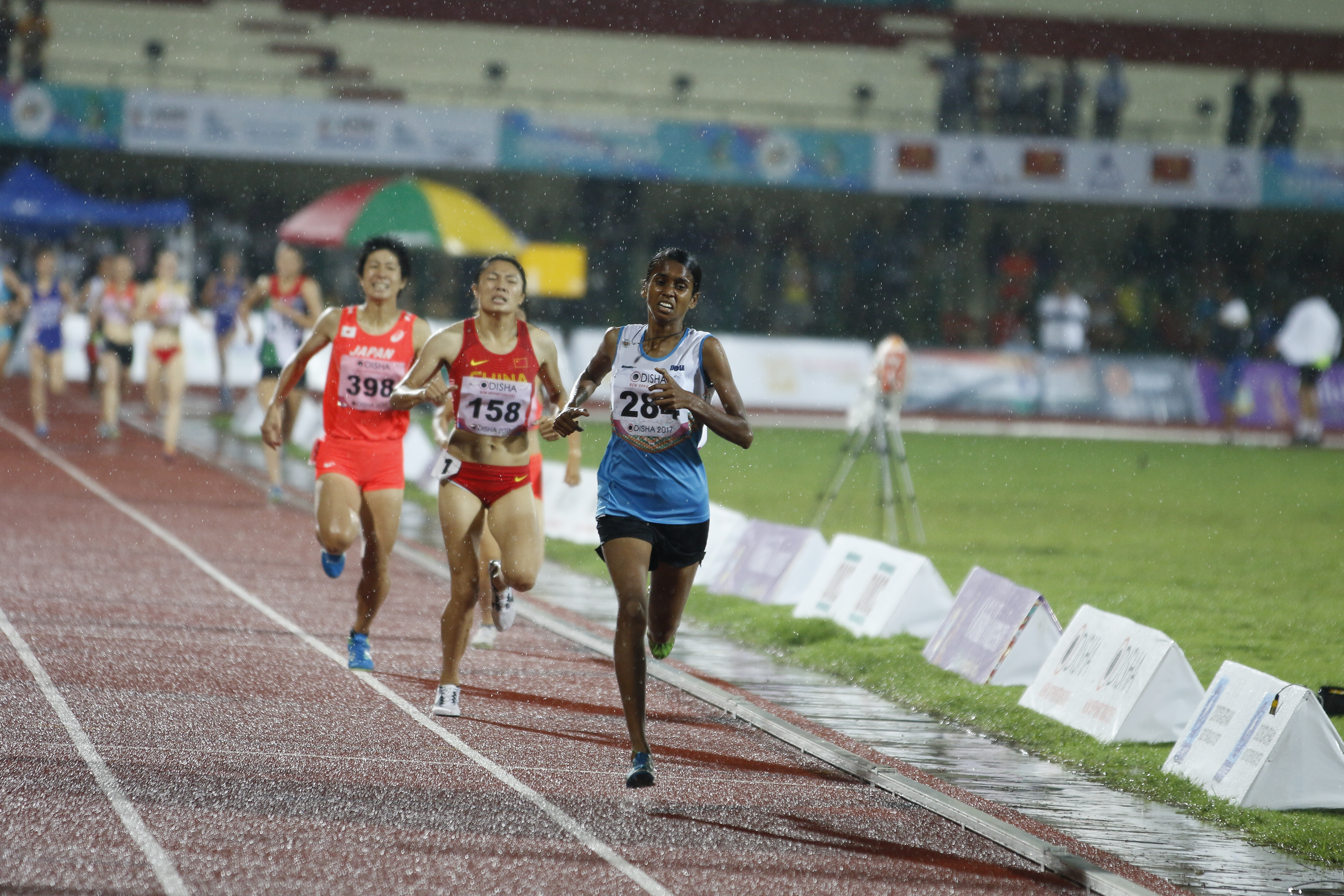 Athletes during 22nd Asian Athletics Championships in Bhubaneswar.